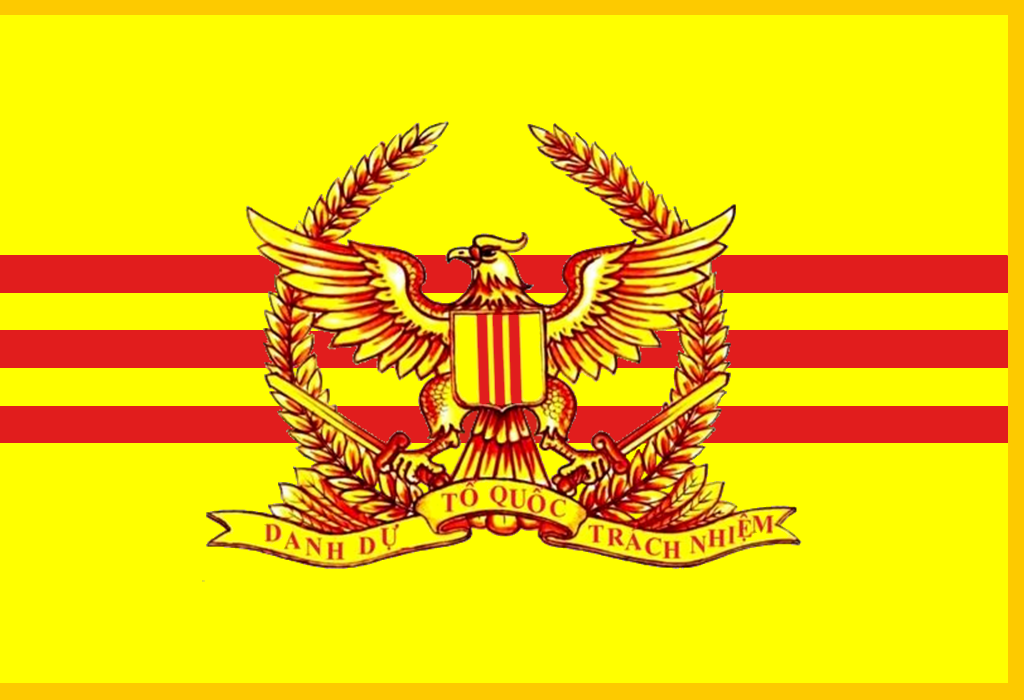 The flag of Republic of Vietnam Military Forces, used since 1955 to 1975.